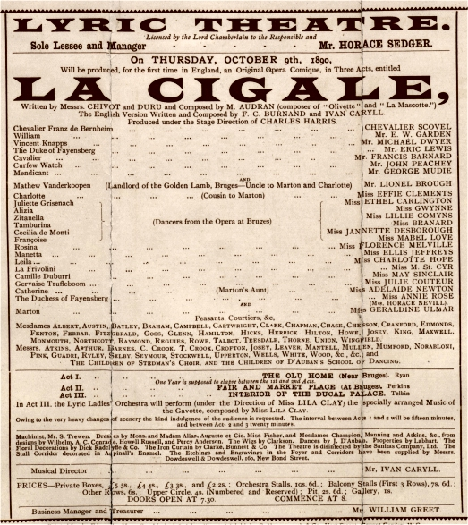 Scan of original Victorian (1890) programme for London production of La Cigale, by Edmond Audran. Public domain.